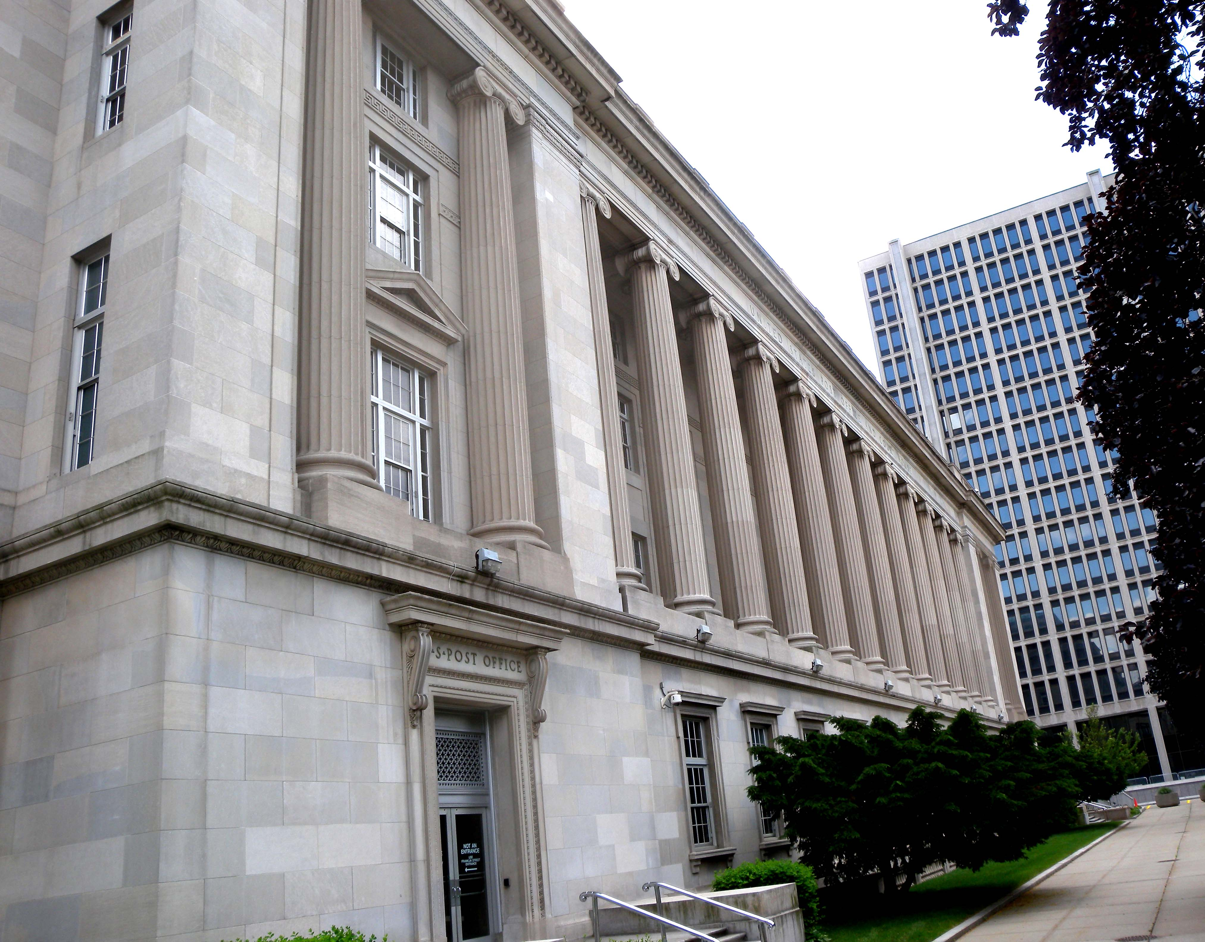 Looking southwest from Franklin Street along colonnade of United States District Court for the District of New Jersey and Post Office in Newark on a mostly sunny midday.